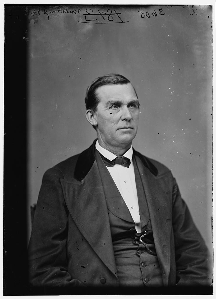 Kentucky Congressman Milton J. Durham